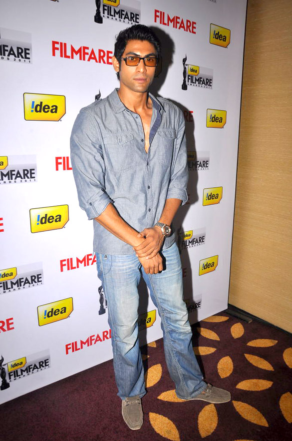 Daggubati 59th filmfare awards(south) press meet